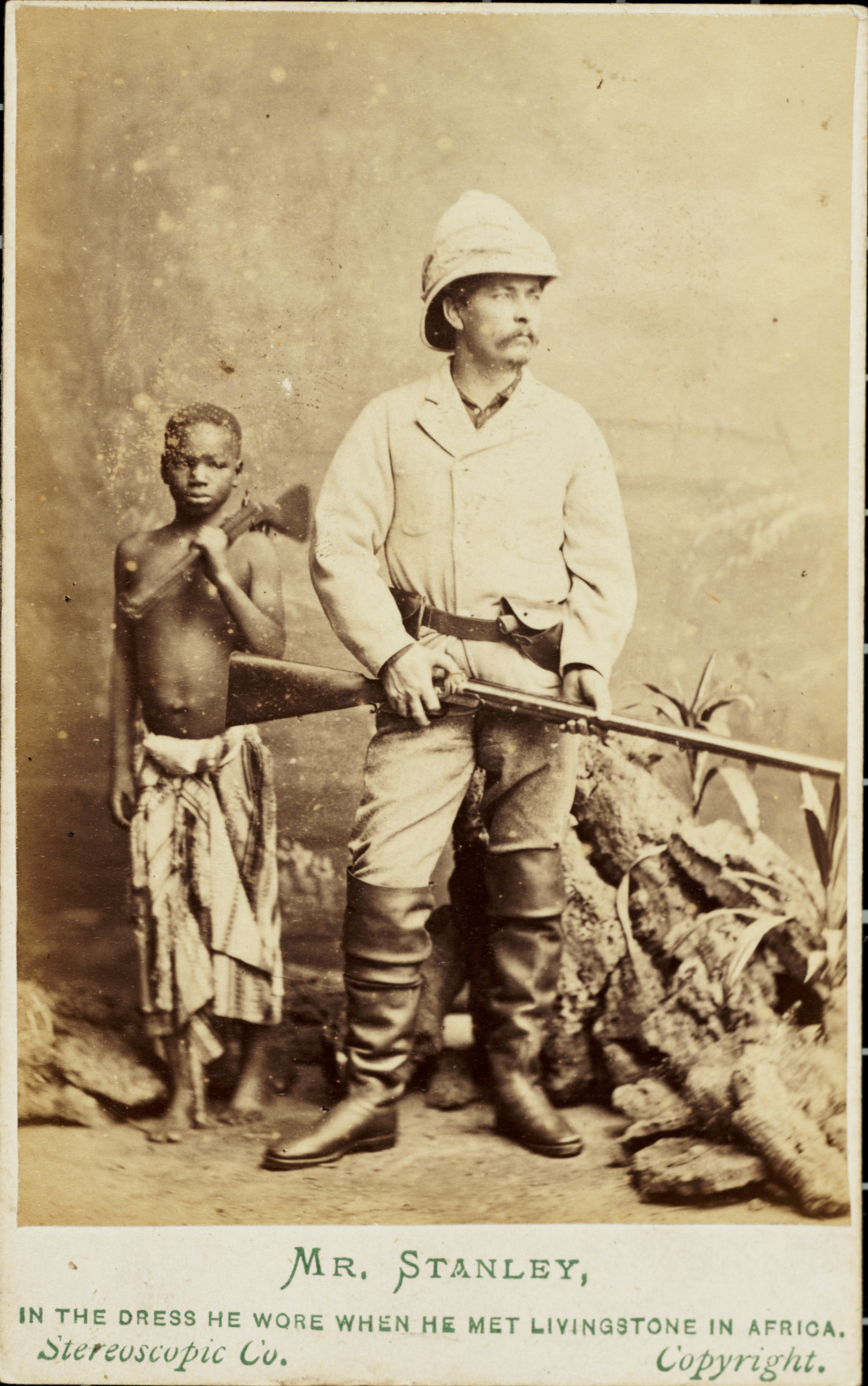 Description: Stanley, a newspaper reporter and tireless self-promoter, was hired by the New York Herald to find the missing Livingstone in 1871, winning himself wealth and reputation. Creator/Photographer: London Stereoscopic & Photographic Company Medium: Carte-de-visite Dimensions: 4 in x 2.5 in Date: 1872 Persistent URL: Repository: Smithsonian Institution Libraries Collection: The Russell E. Train Africana Collection includes approximately 2,000 books and an extensive array of manuscripts, photographs, watercolors, sketches, maps, newspaper clippings, artifacts and other ephemera ranging from the late 18th to mid-20th centuries, with a concentration on items relating to early British and American explorers. The famous missionary David Livingstone and journalist Henry Stanley, as well as President Theodore Roosevelt, a renowned conservationist of his time, are well represented with numerous books by and about them, manuscript letters, privately printed materials, dozens of photographs and other ephemera. Some of the published books in the collection are presentation copies autographed by the author, while others have original artwork or engravings. Gift line: Gift of Russell E. Train Accession number: SIL28-277-01 View more collections from the Smithsonian Institution. Related blog posts: Photos, Guns, Africa, Stanley, & Kalulu